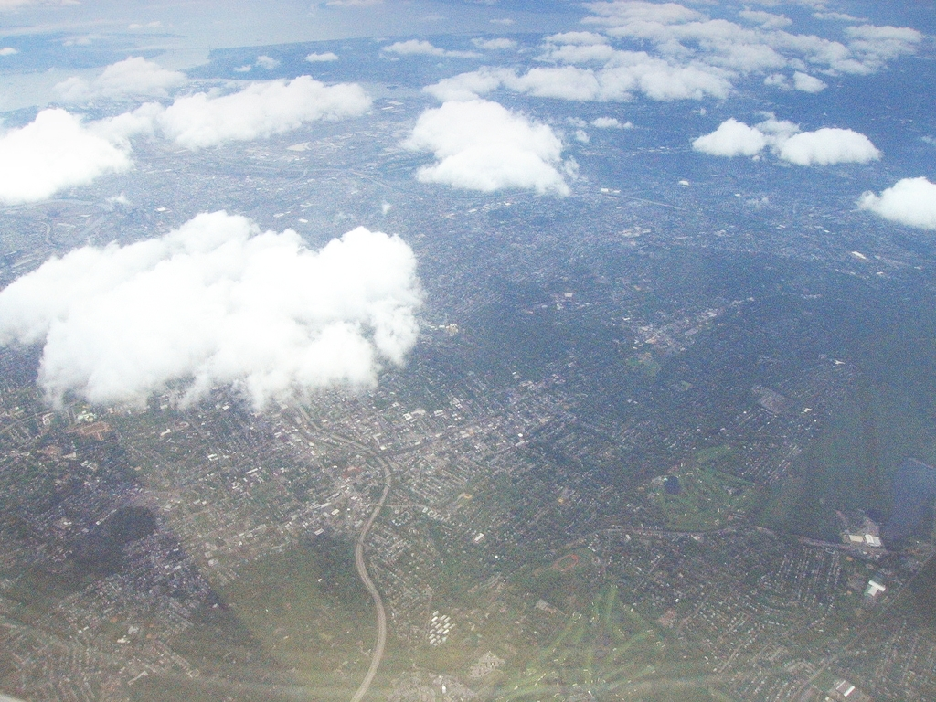 Aerial view of West Orange, New Jersey.